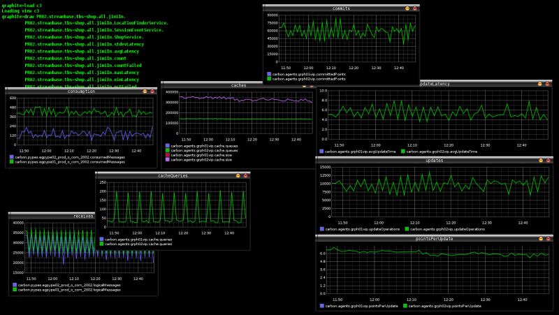 Graphite (log monitoring software) If you would like to use this photo, be sure to place a proper attribution linking to